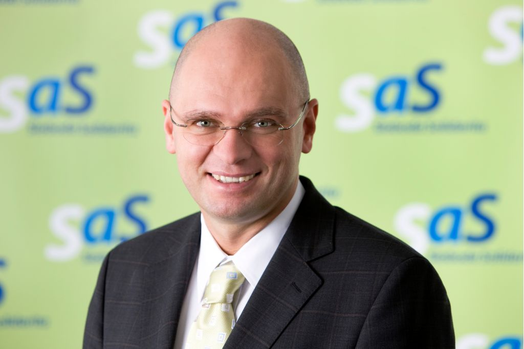 Portrait of Richard Sulík.